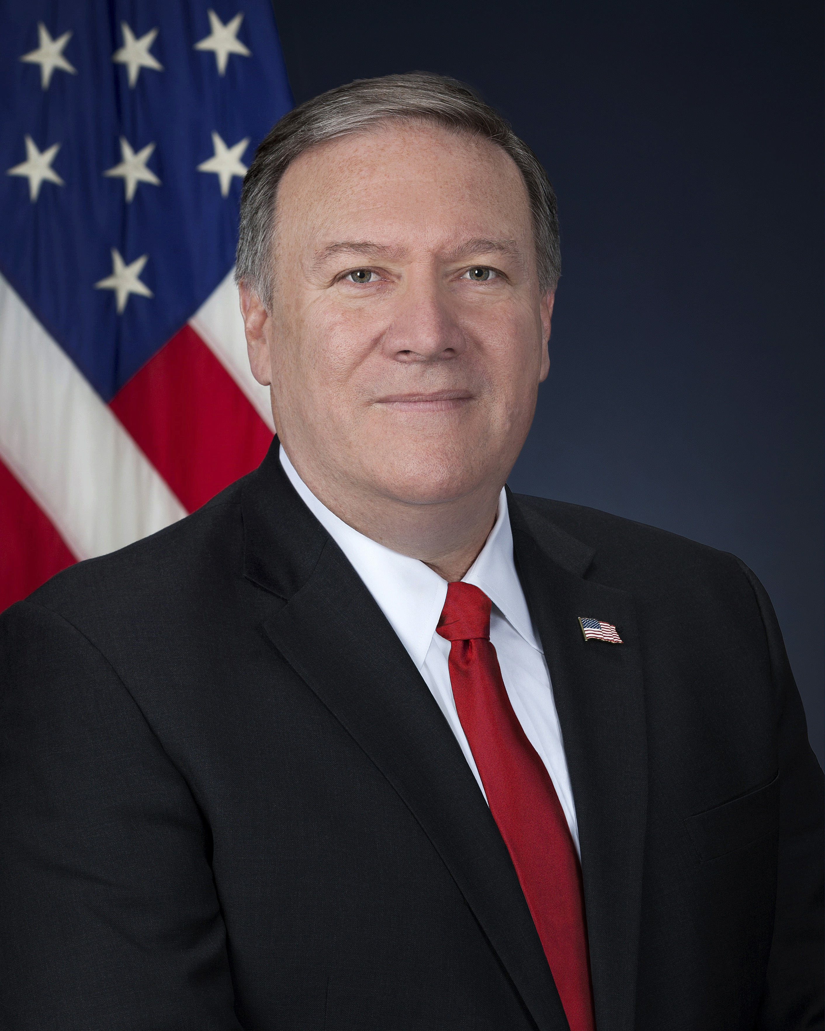 Mike Pompeo, 70th United States Secretary of State, official photo